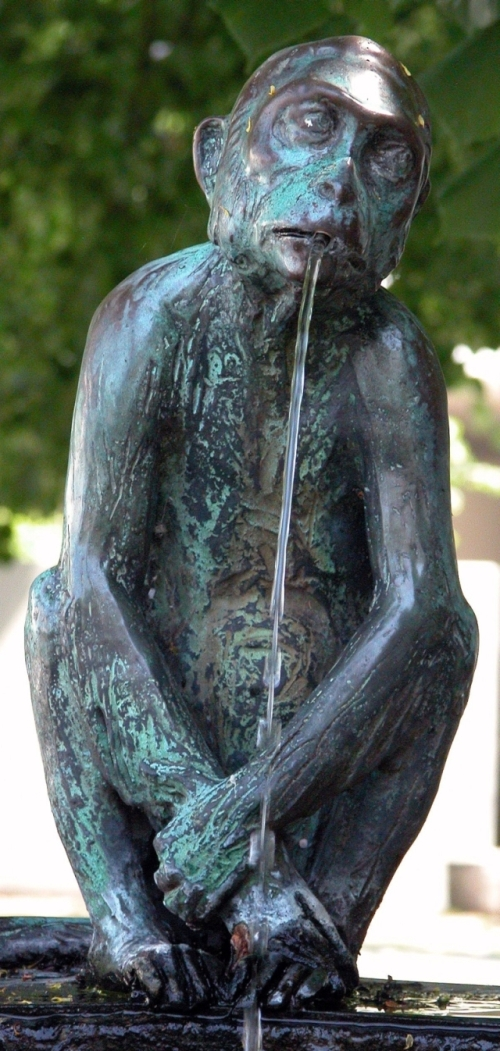 Brunswick, Germany: Guenon on the Till Eulenspiegel-Fountain.